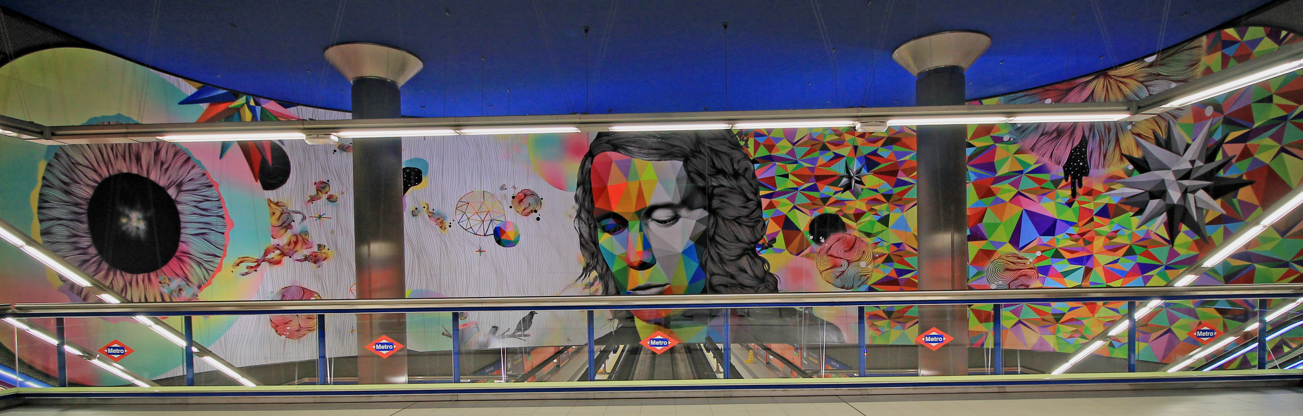 Interior of Paco de Lucía station in Madrid (Spain).